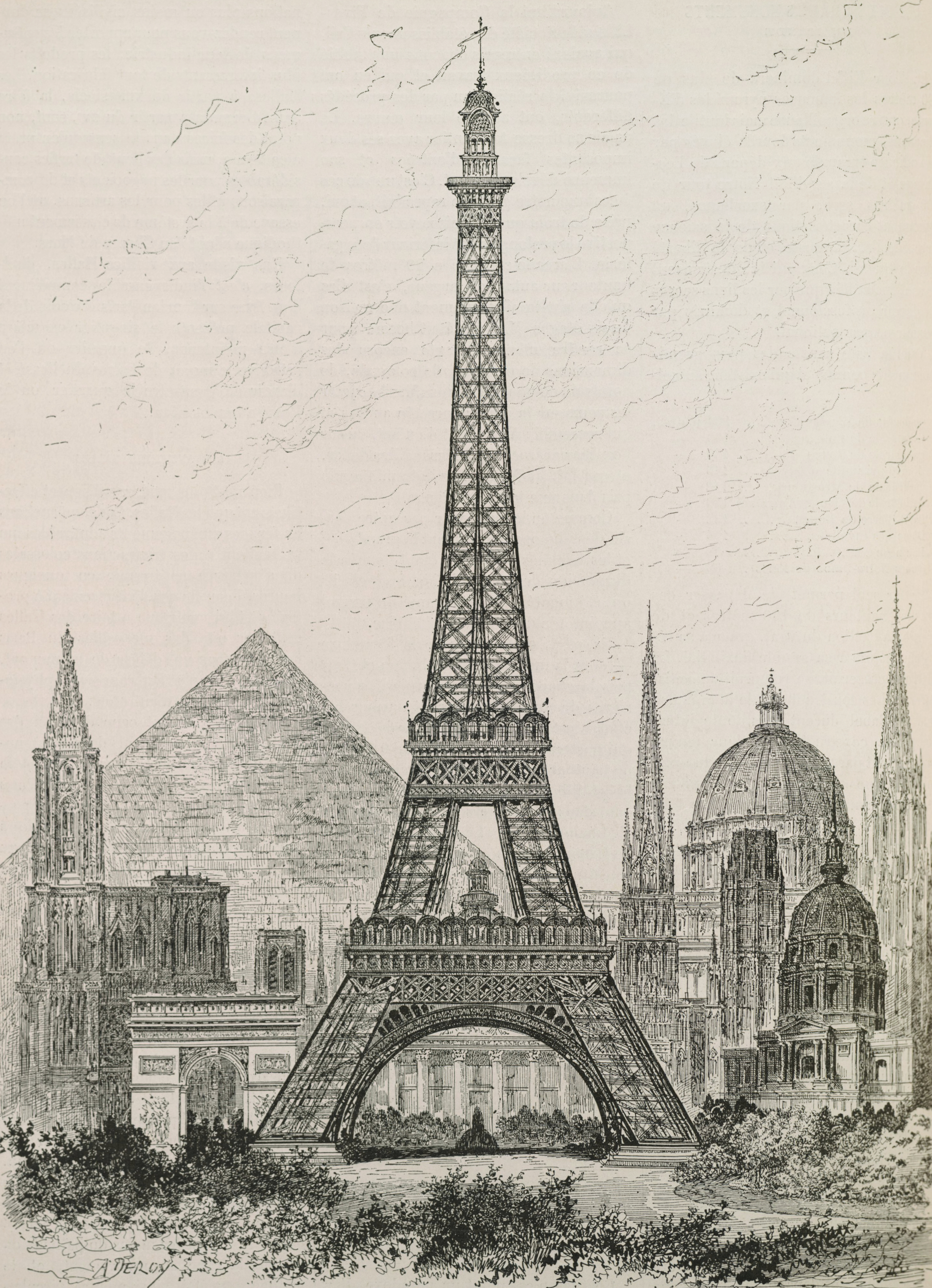 This print illustrates the highest monuments of the world, in order to give an idea of the scale of the Eiffel Tower. The Eiffel Tower was the highest construction of the world in 1889, and remained so until 1930, when the Chrysler building was completed in New York City.